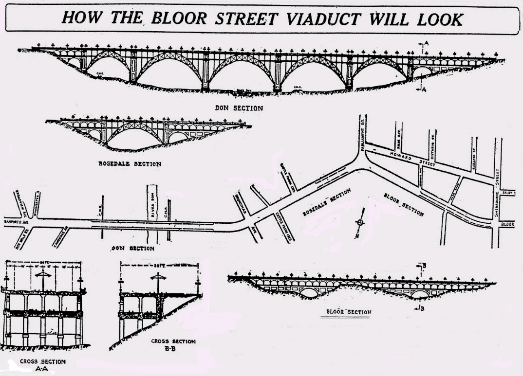 Illustration used in 1912 for discussion of Bloor Street Viaduct (Prince Edward Viaduct) referendum in 1912.